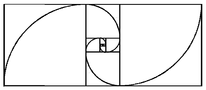 Silver spiral in the silver rectangle, approximated by quarter circles.